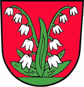 Coat of Arms of Gehofen